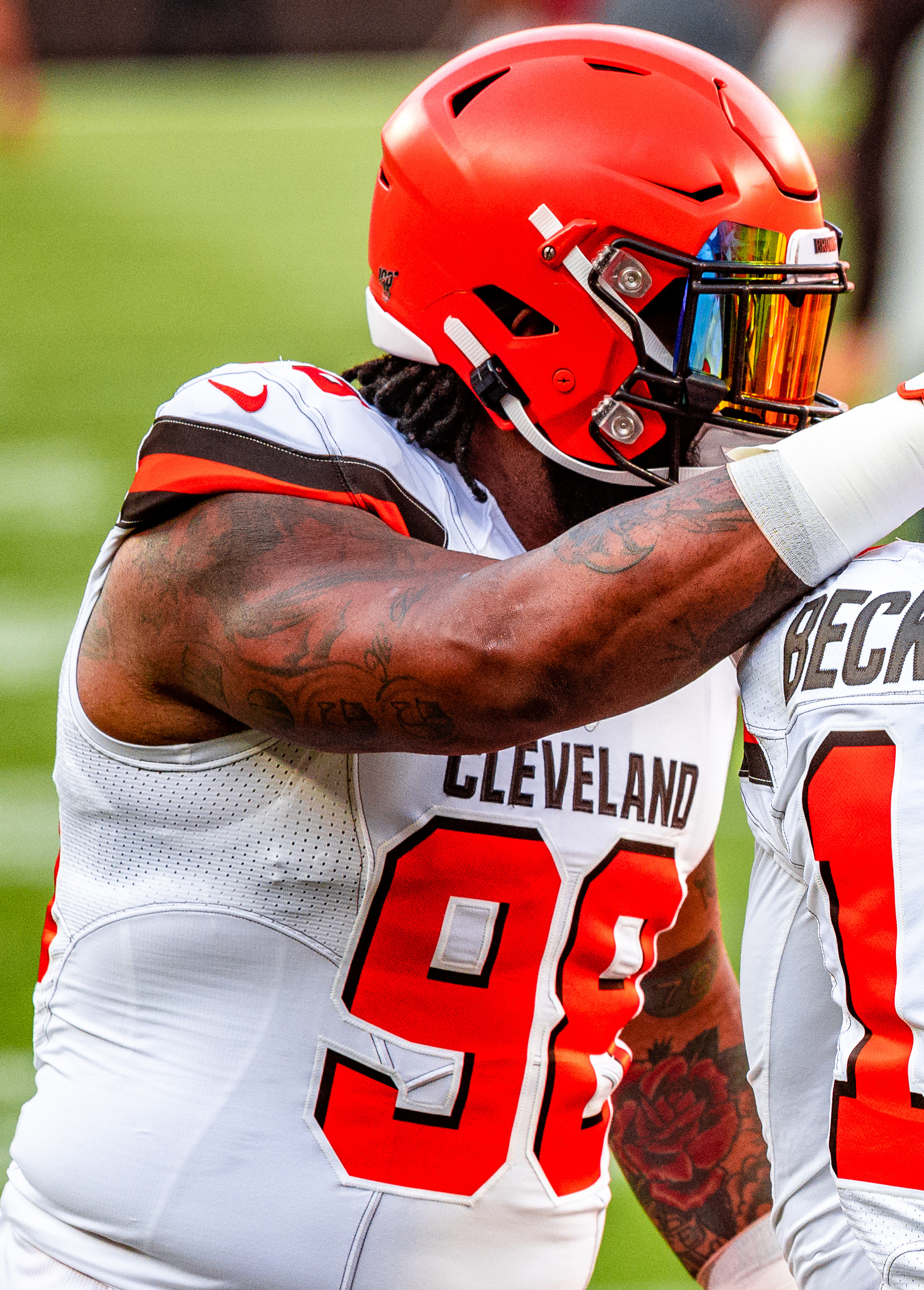 Cleveland Browns defensive tackle, Sheldon Richardson, and wide receiver, Odell Beckham Jr., playing in a preseason game against the Washington Redskins on August 8, 2019.